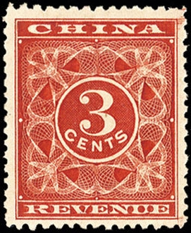 Red 24